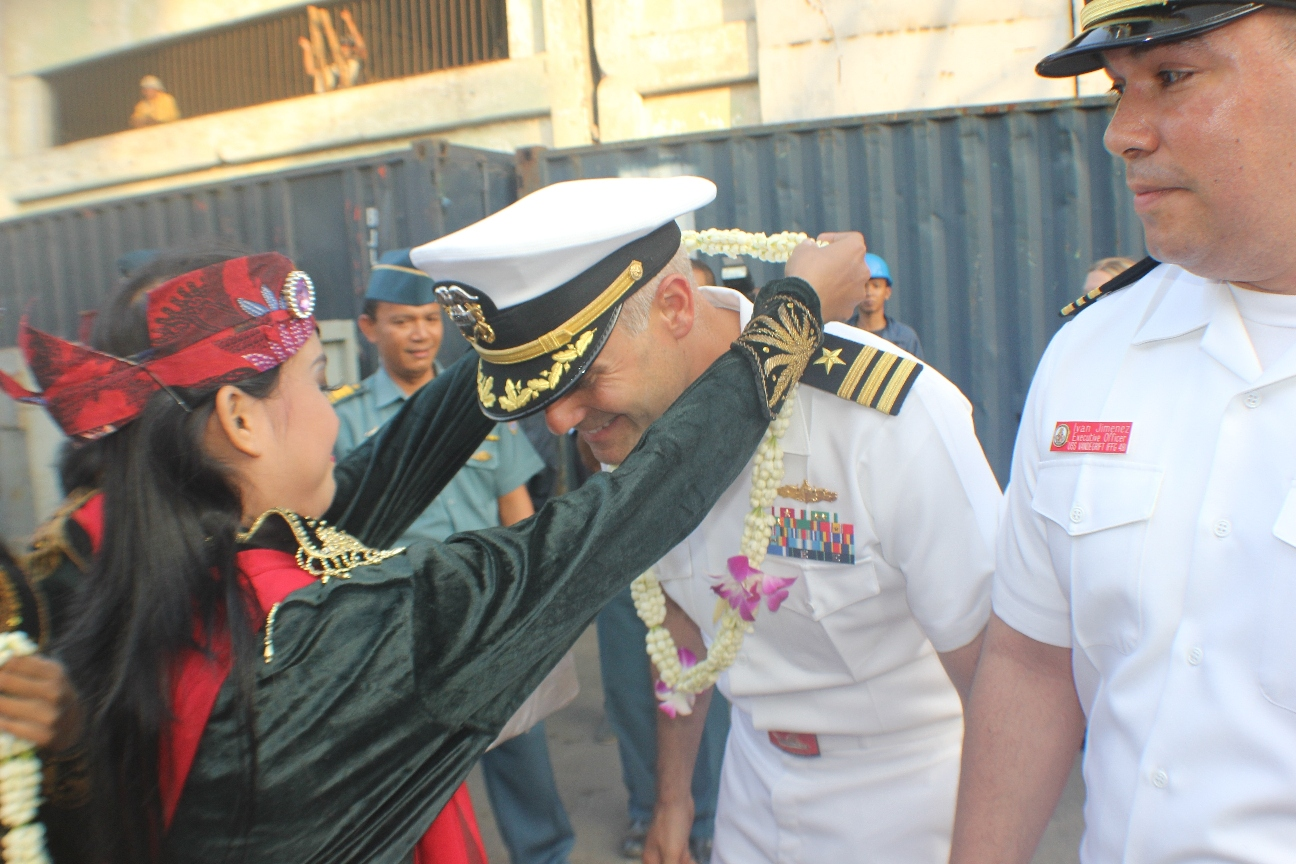 Port Tanjung Perak, Indonesia (May 29, 2012) - USS VANDEGRIFT’s Commanding Officer CDR Brandon Bryan is greeted by Rainbow Dancers who preformed a traditional Indonesian dance at a welcoming ceremony for CARAT Indonesia. (US Navy Photo by LTJG Murtha)